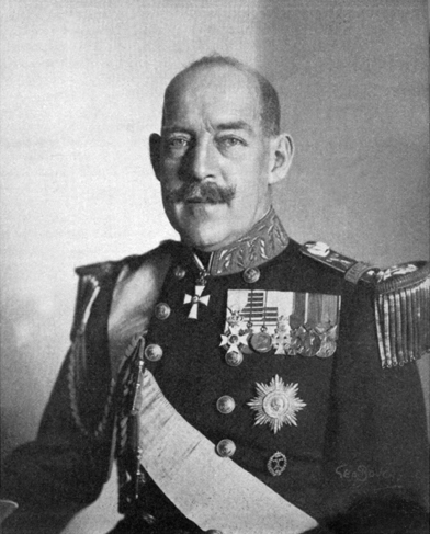 The Official Portrait of King Constantine I of Greece